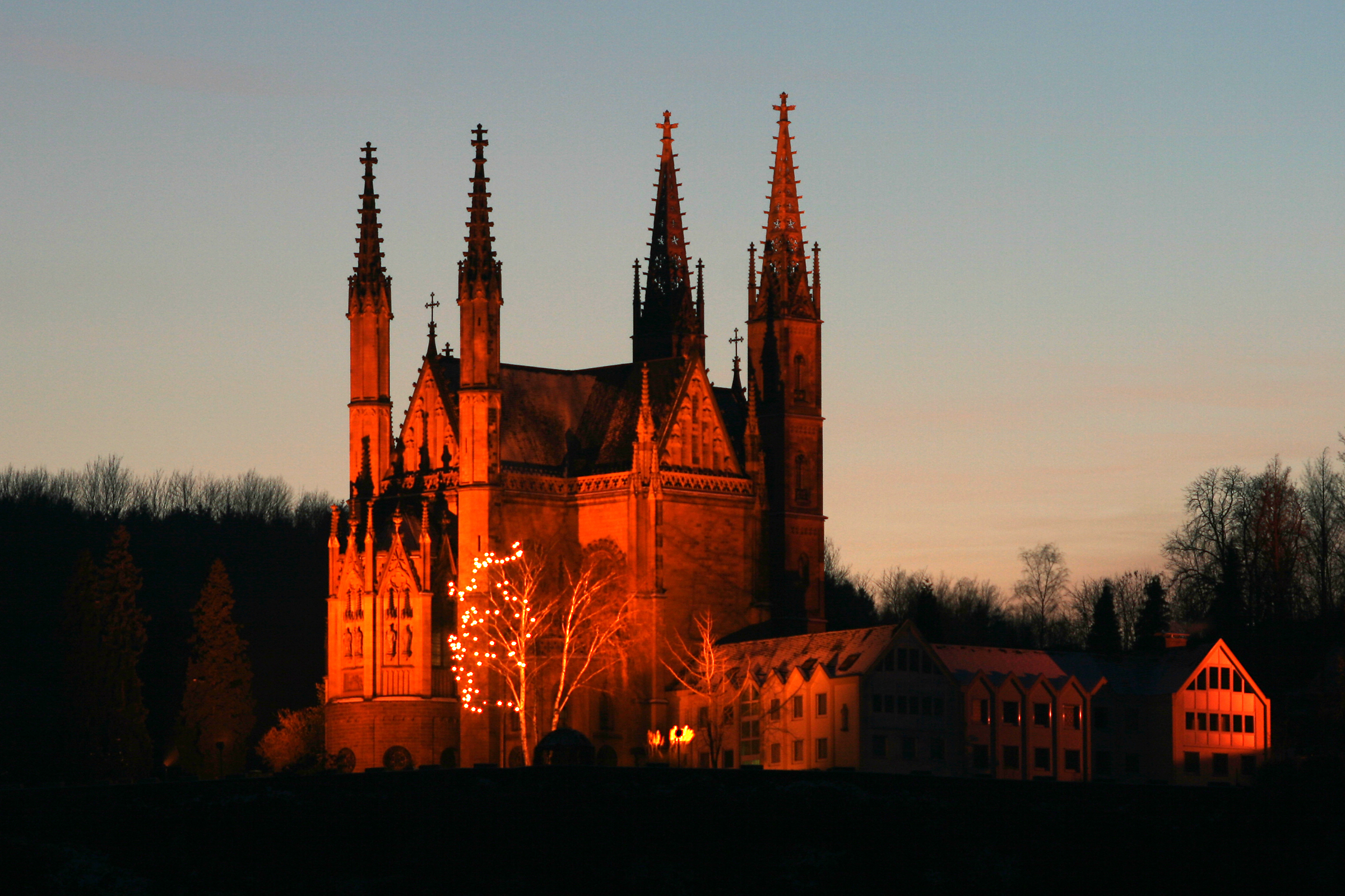 Apollinariskirche in Remagen, Germany